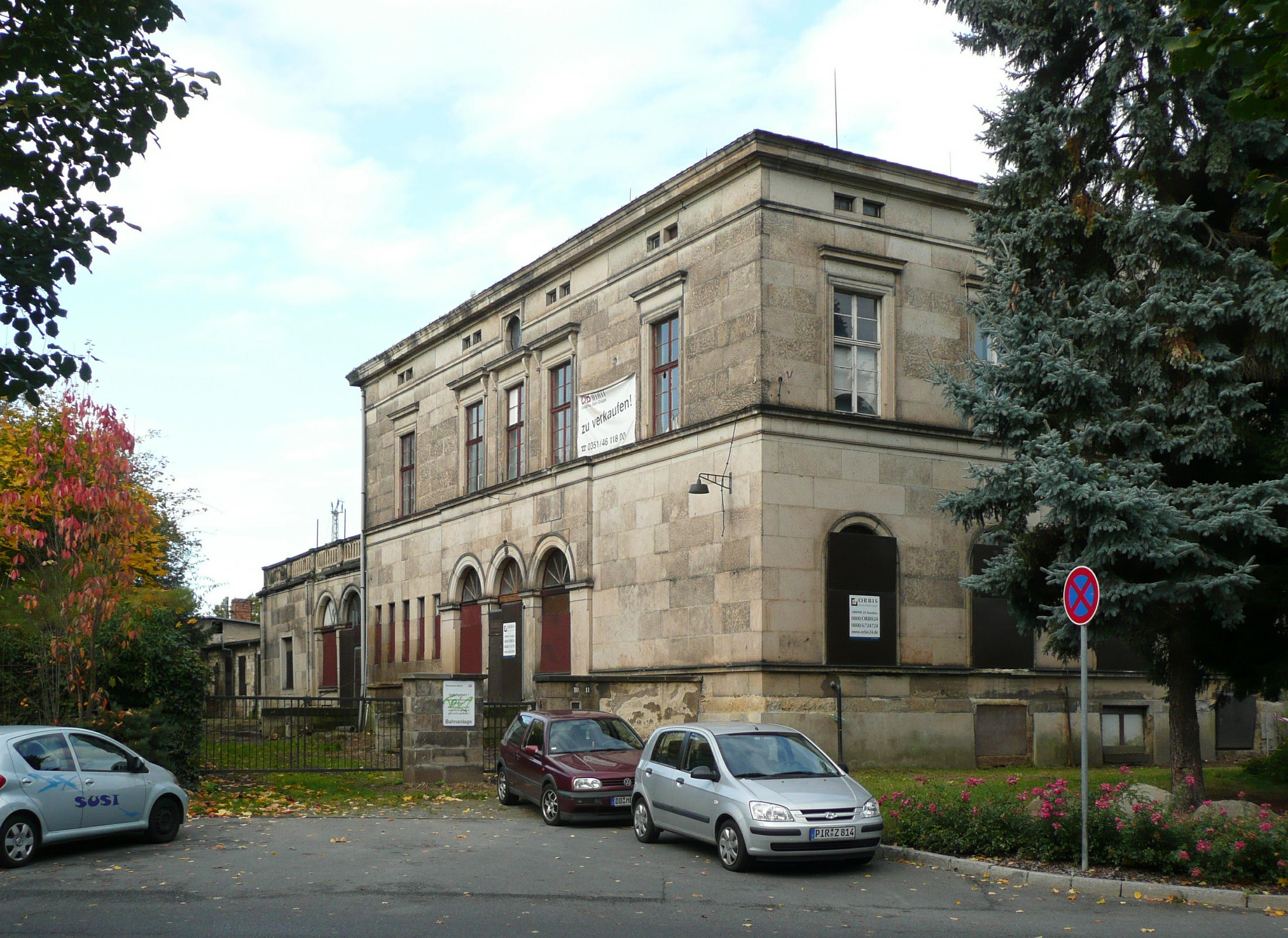 The old station in Pirna, used from 1848 to 1875.